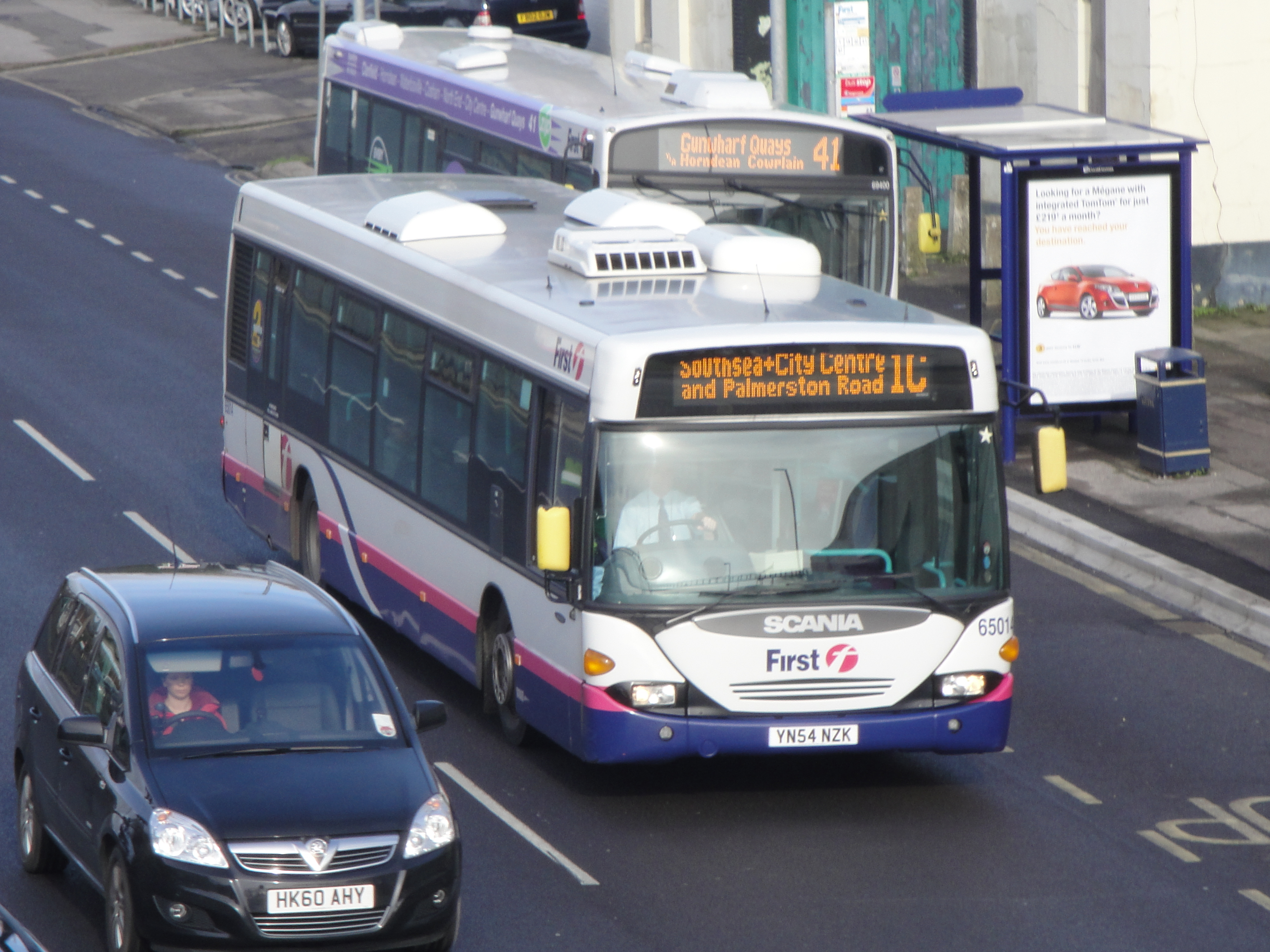 First Hampshire & Dorset 65014 (YN54 NZK), a Scania OmniCity, in London Road, Portsmouth, Hampshire on route 1C.